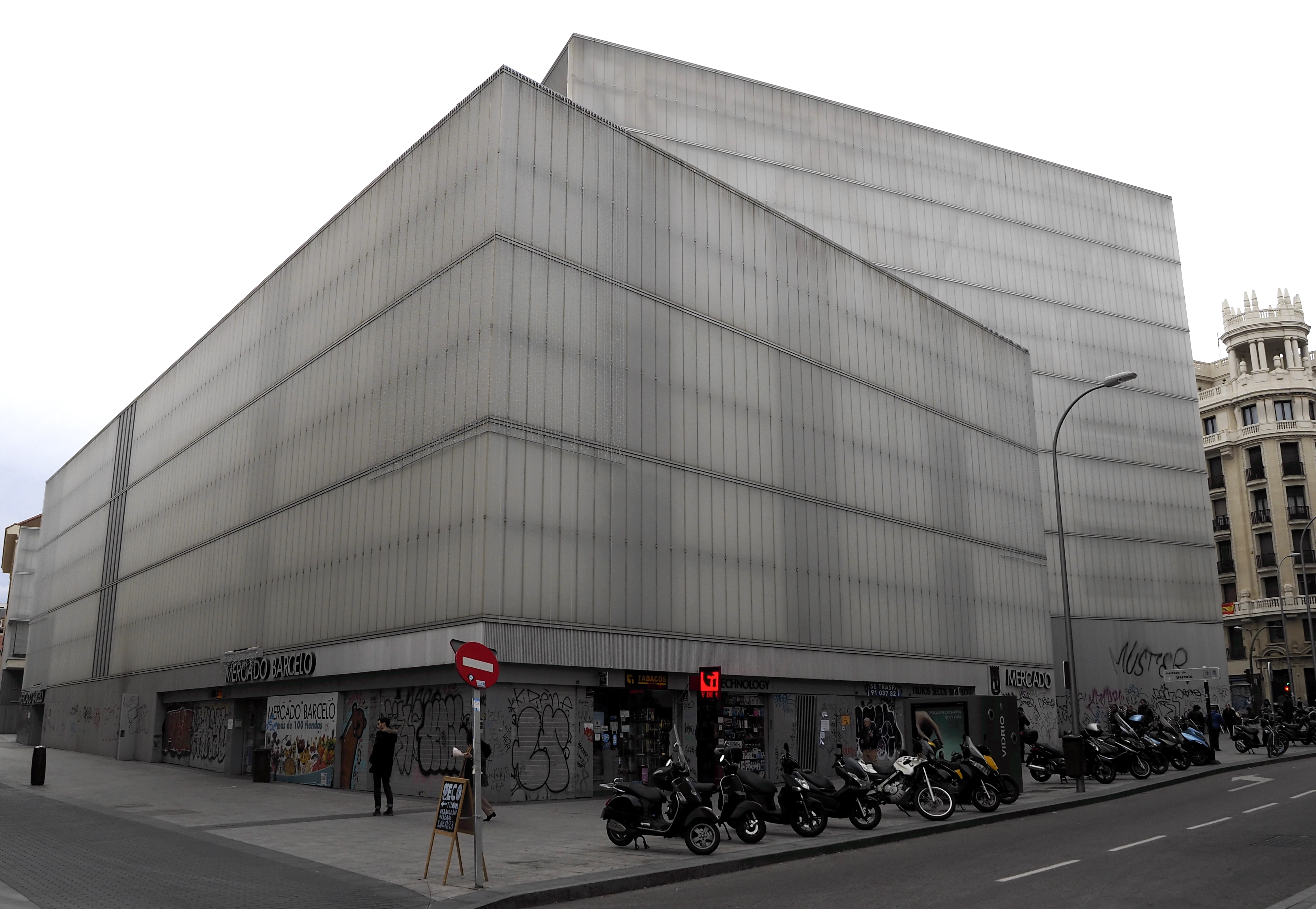 Barceló market in Madrid (Spain)